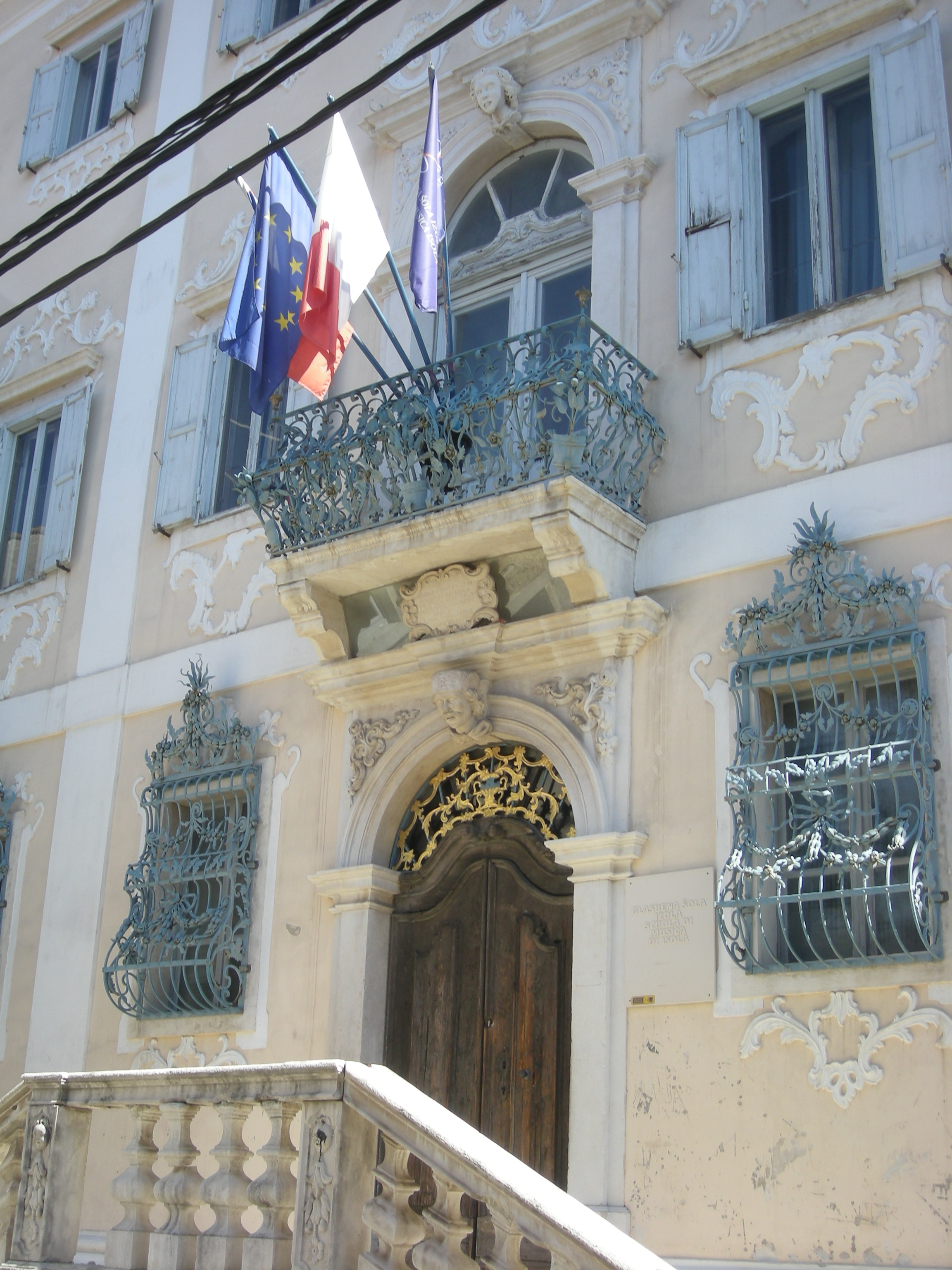 Palace Besenghi degli Ughi, Izola, Slovenia